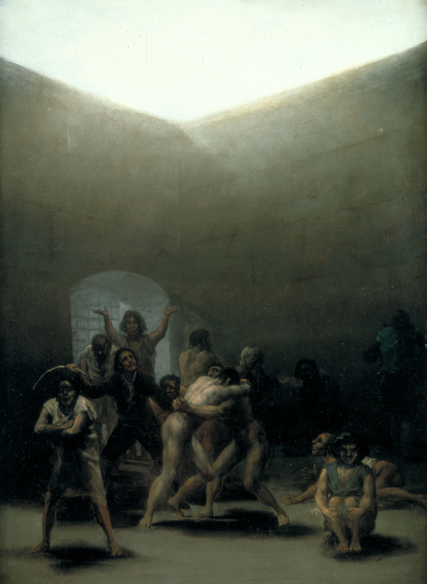 In one of his letters, Goya describes the painting: "a yard with lunatics, in which two nude men fight with their warden beating them... [it is a scene I saw in Zaragoza]."[1]